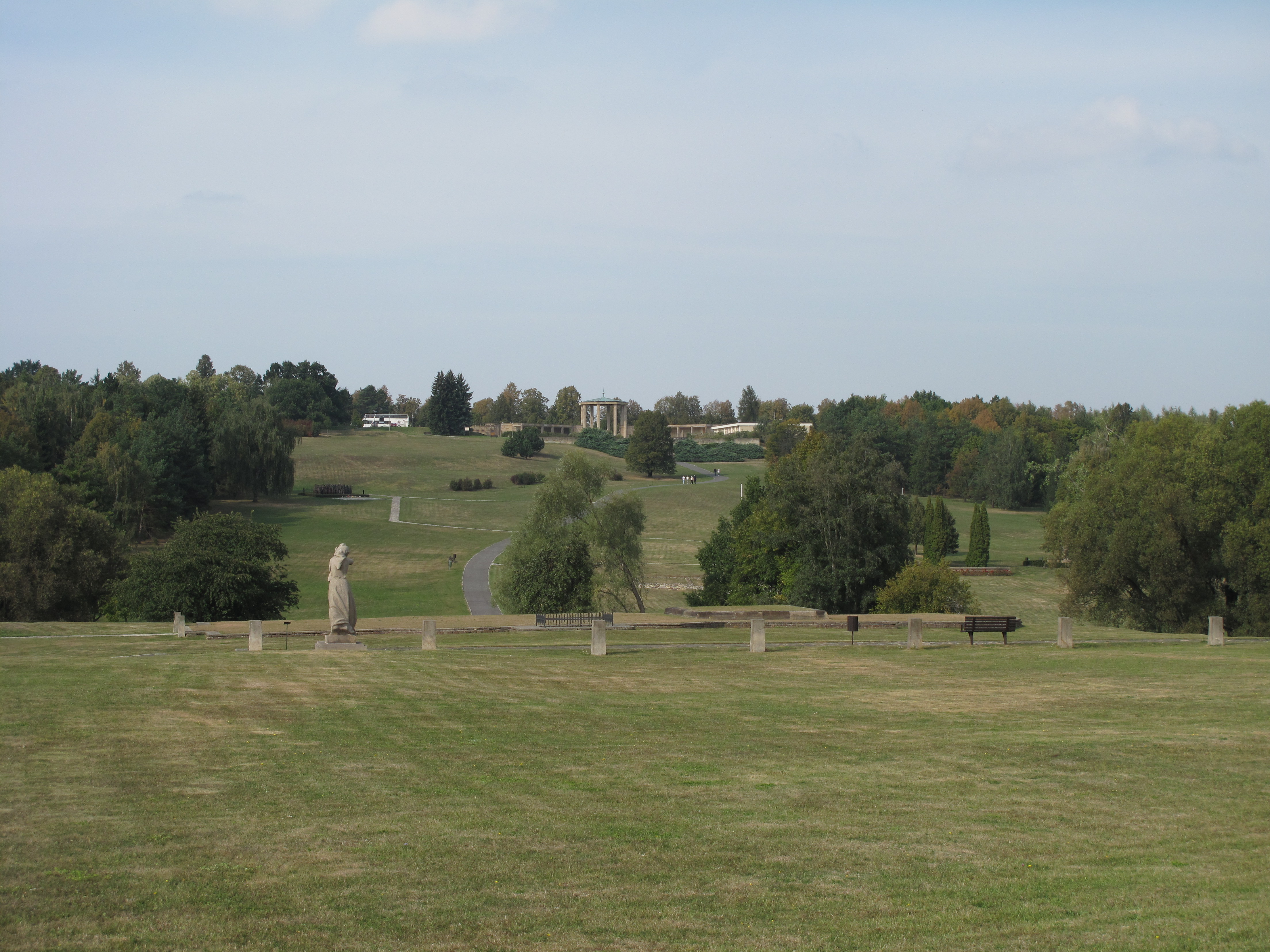 Lidice Memorial - to the museum.